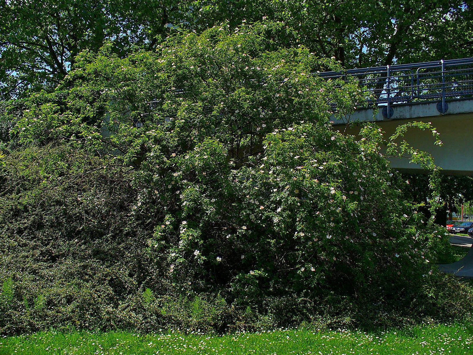 Rosa canina, Rosaceae, Dog Rose, habitus. Karlsruhe, Germany.